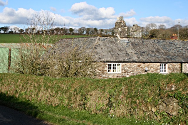 Farmhouse at Lower Truscott This large farmhouse is attached to a working farm.